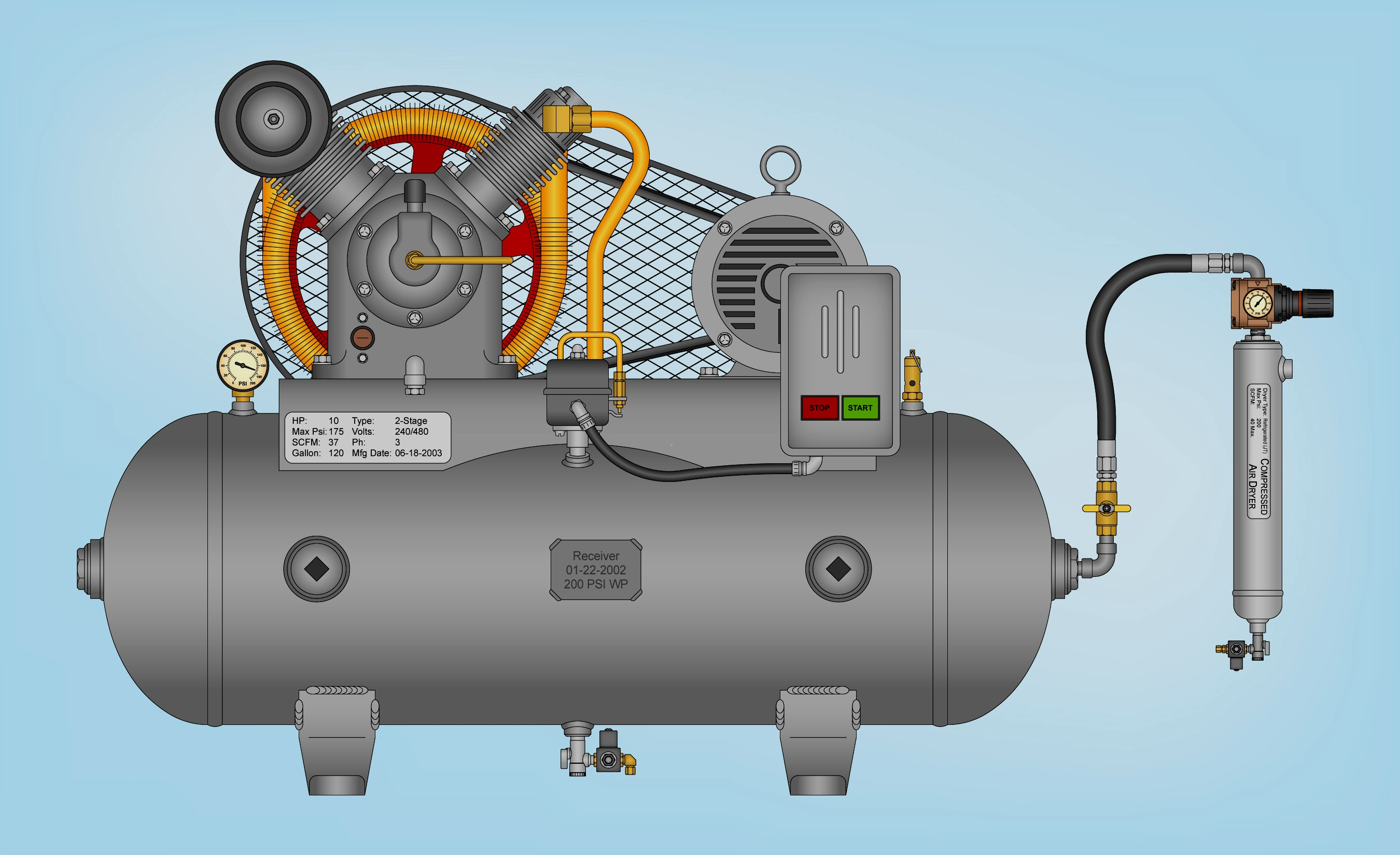 This is a technical illustration showing a typical two-stage compressor arrangement.